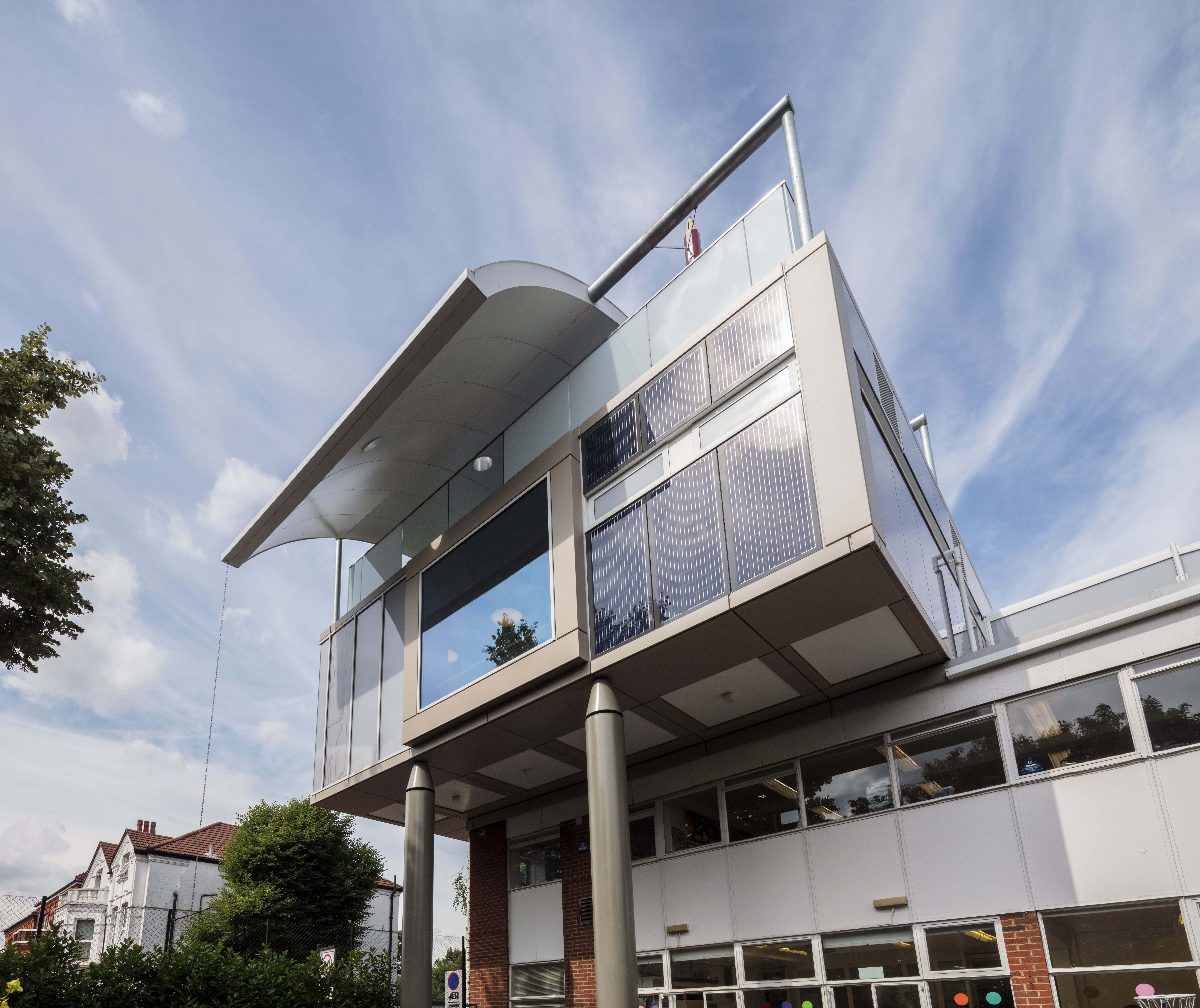 Featured images for Douglas Jarvie Clelland Wikipedia article